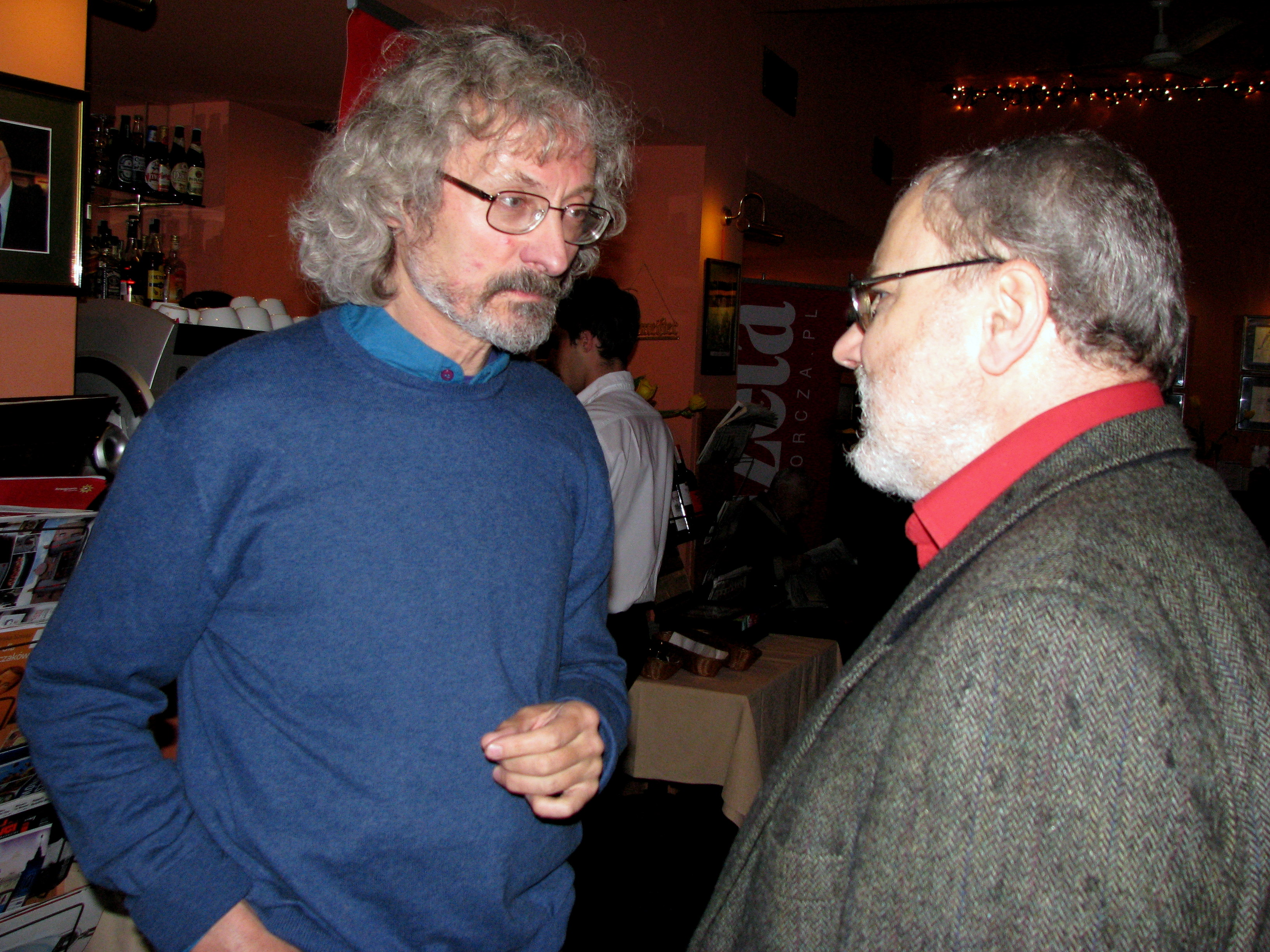 Michal Klobukowski (b. 1951) - Polish translator and poet and Jan Gondowicz (b. 1950) - Polish essayist and writer.